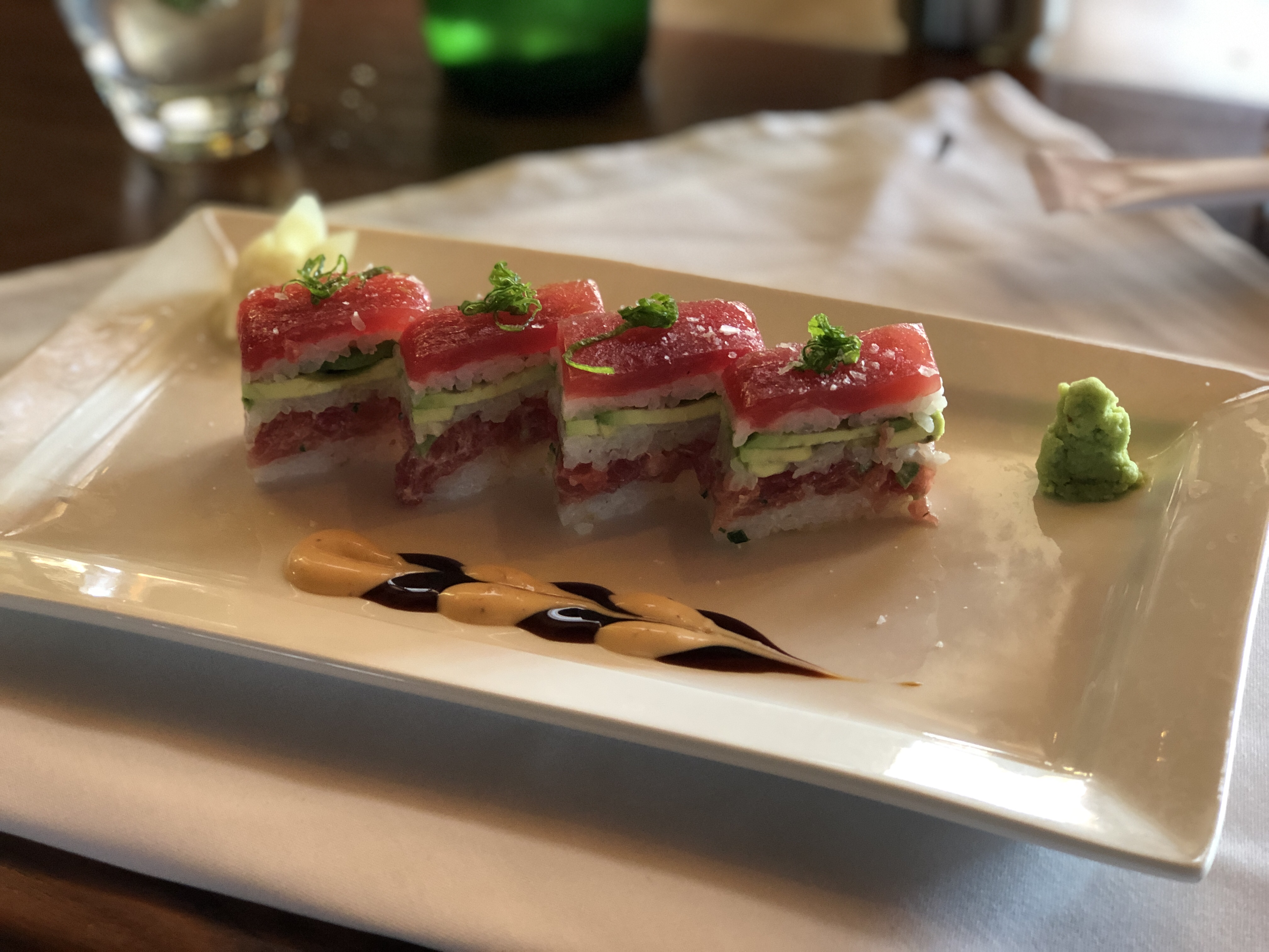 Osaka-style sushi at R&D Kitchen in Yountville, California